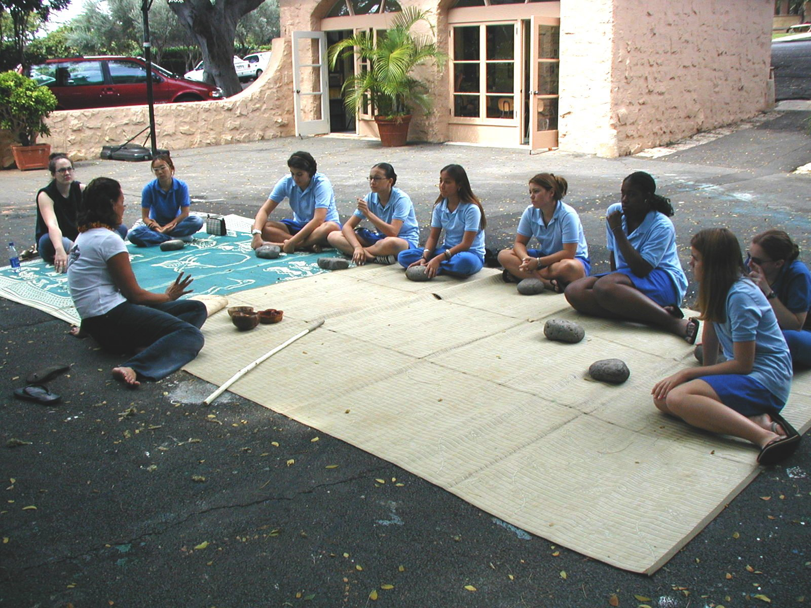 Students learn the art of making Kapa, the Ancient Hawaiian utility bark "cloth." I, Joshua Reppun, teach at La Pietra and took this photo, which I release into the public domain.